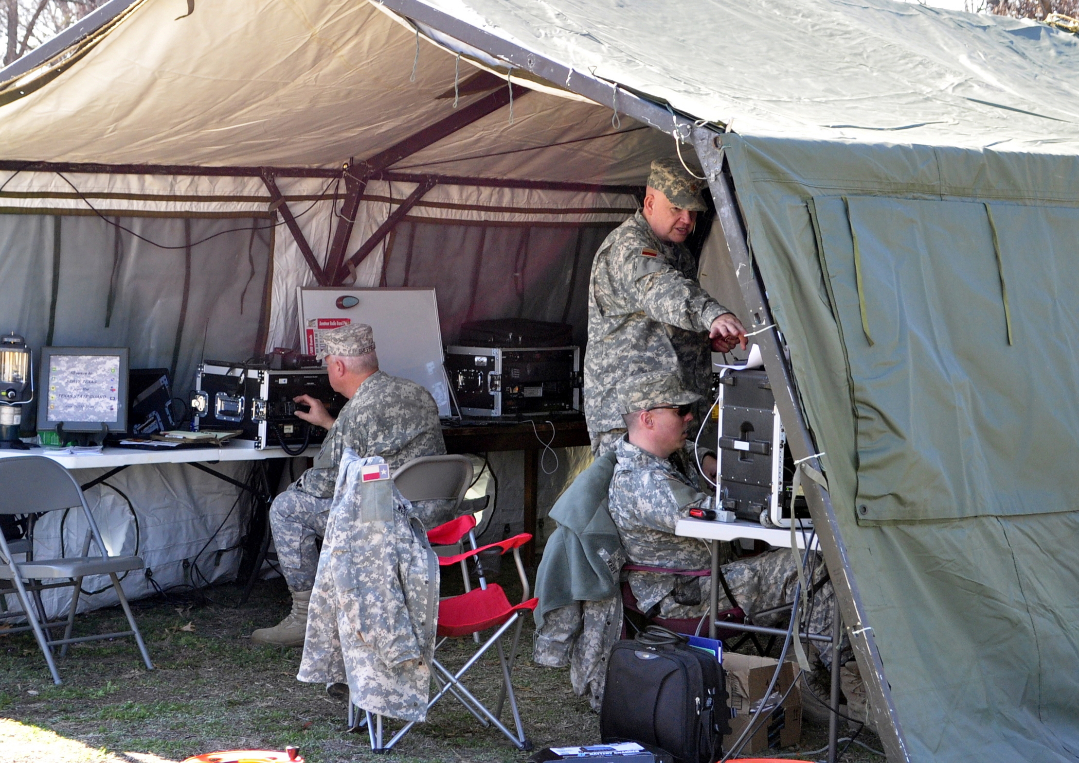 The 19th Regiment signal unit, Texas State Guard, conducted a radio communications exercise at the California Crossing National Guard Armory in Dallas, Feb. 6-8, 2015. The exercise tested communications at great distances, operations management and how to provide support to the communities and officials involved during a natural disaster. (Texas State Guard photo by Capt. Esperanza Meza)